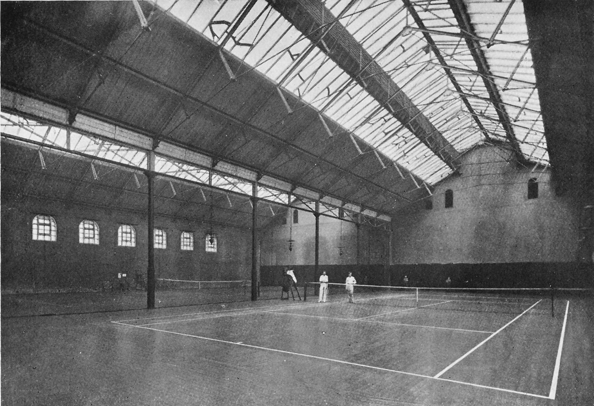 A Tennis court in London in the 19th century. Original description: "The Covered Courts at Queen's Club, West Kensington."